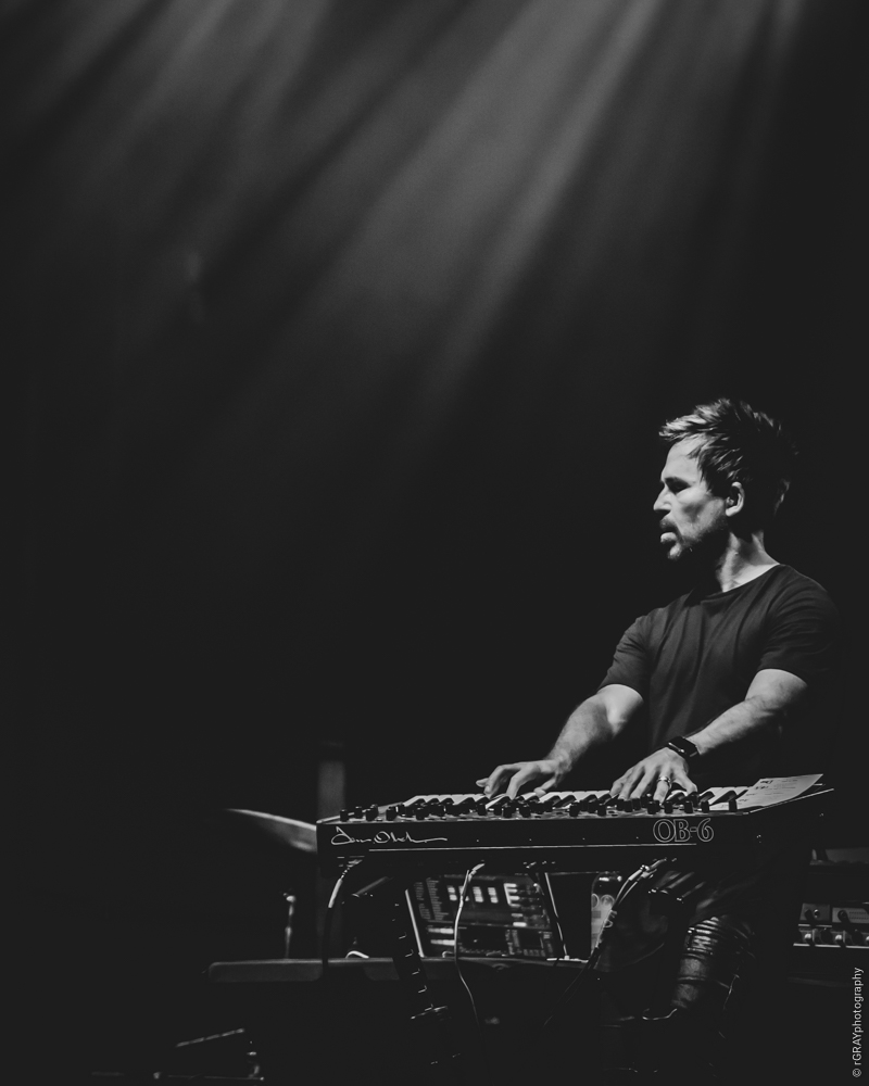 BT of All Hail The Silence live at The Paramount, Huntington, New York, 2019-06-06